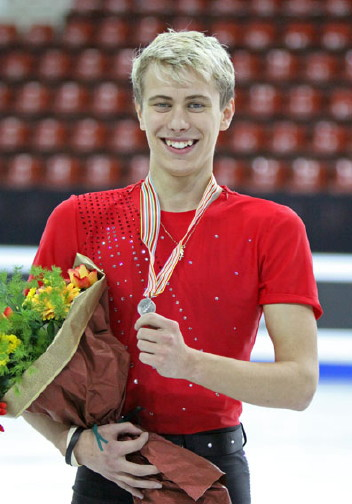 Michal Březina during the men's medals ceremony at the 2009 World Junior Figure Skating Championships.